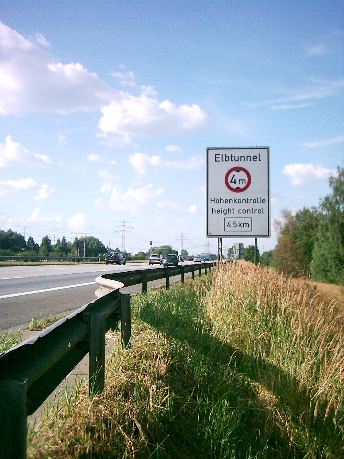 Road sign Hight control in front of New Elbe Tunnel in Hamburg, Germany.